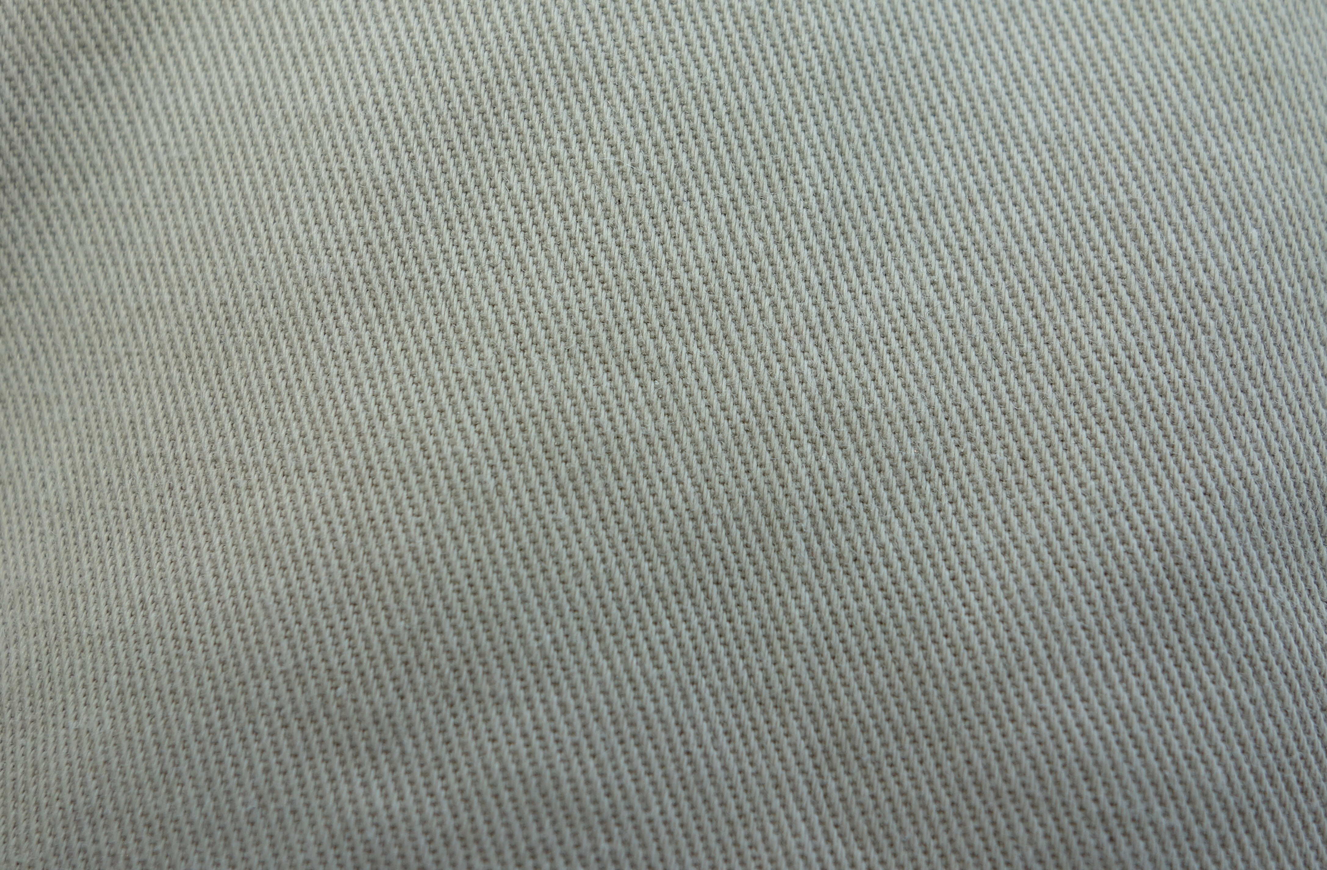 Chino pants close-up.